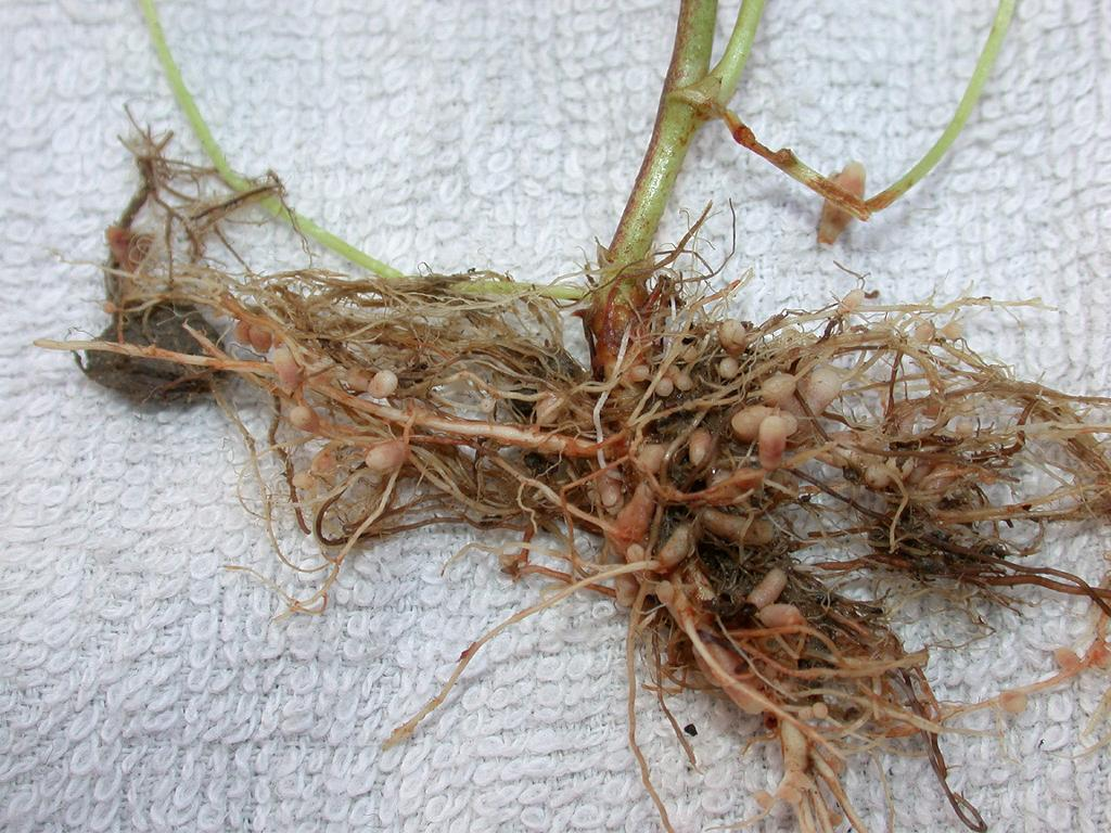 Astragalus sinicus(Fabaceae) Japanese name:Genge Date;2008,04,05;Tanabe city, Wakayama prefecture, Japan Author;Keisotyo